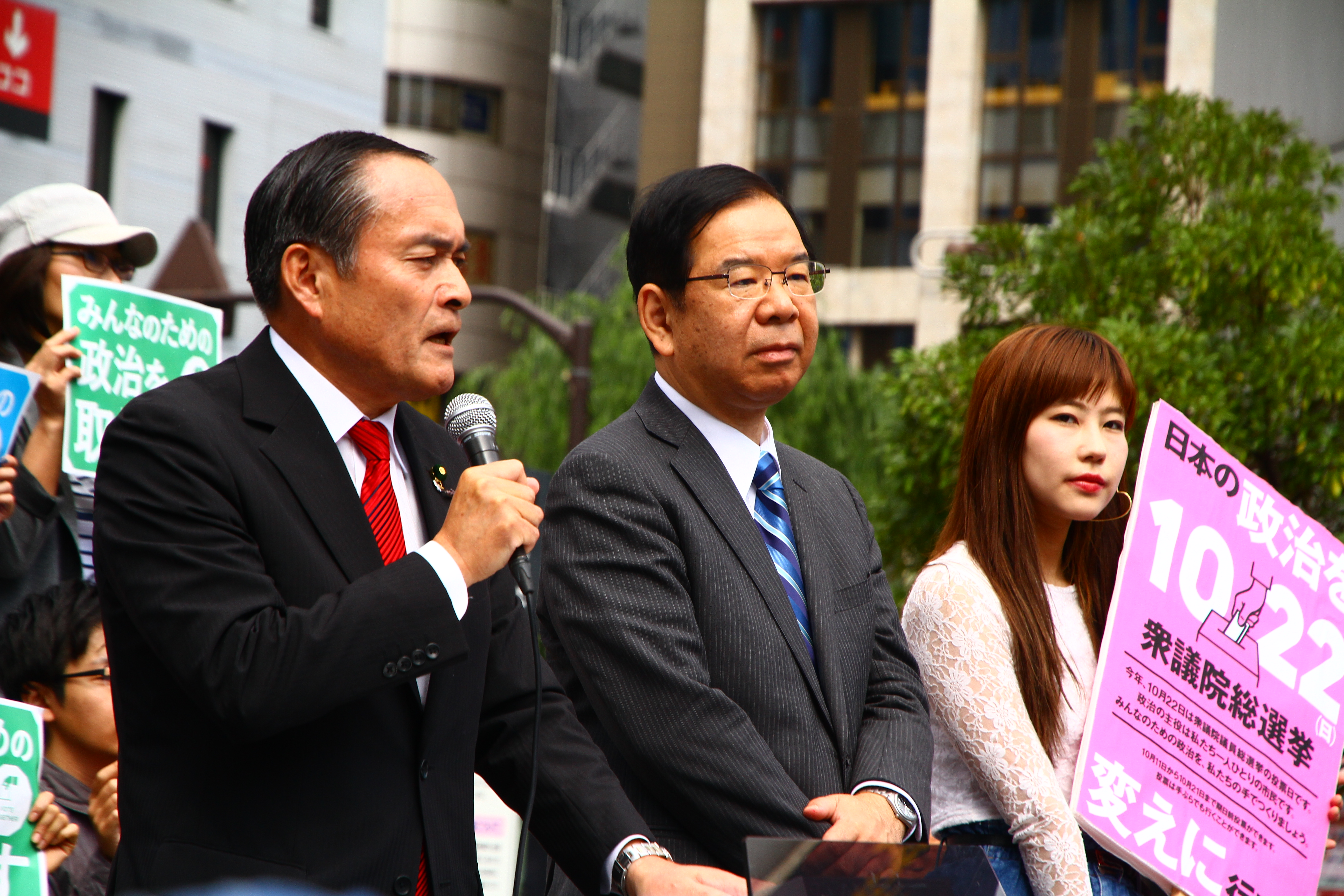 Tadatomo Yoshida and Kazuo Shii at SL Square of Shimbashi Station, Tokyo in October 8, 2017. The right is Yukino Baba.